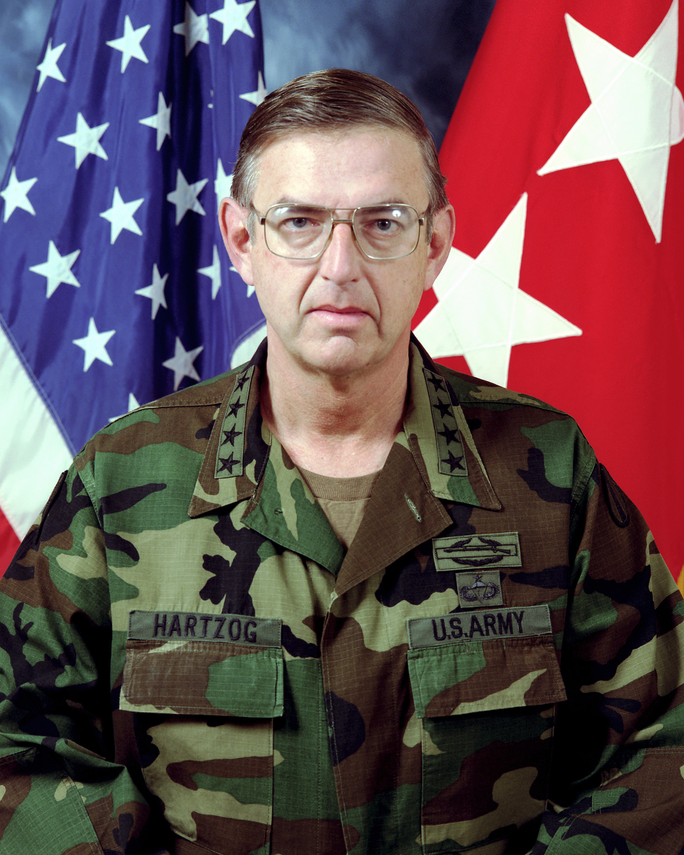 GEN William Hartzog, TRADOC Commander